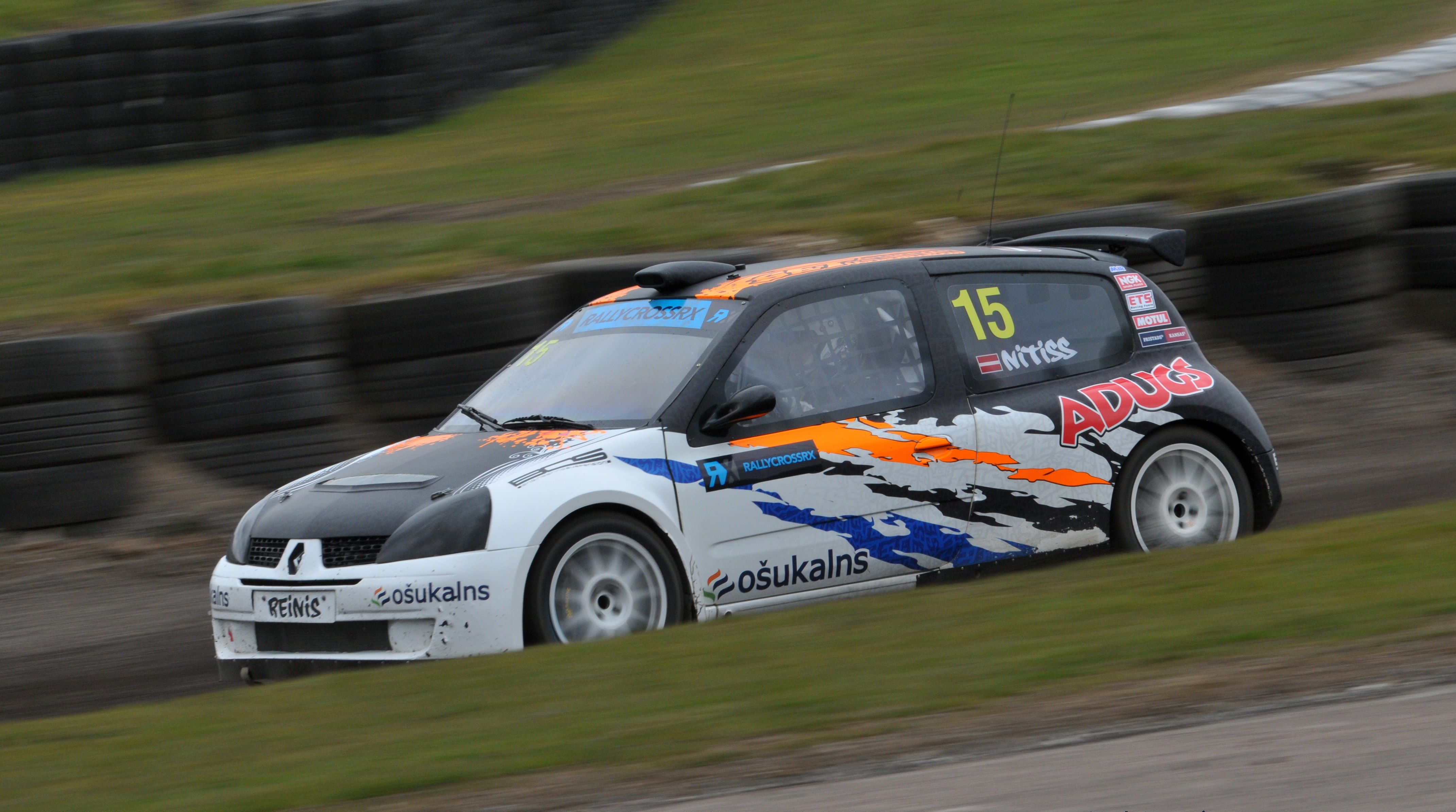 Round 1 Monster Energy FIA European Rallycross Championship Lydden Hill 31st March 2013